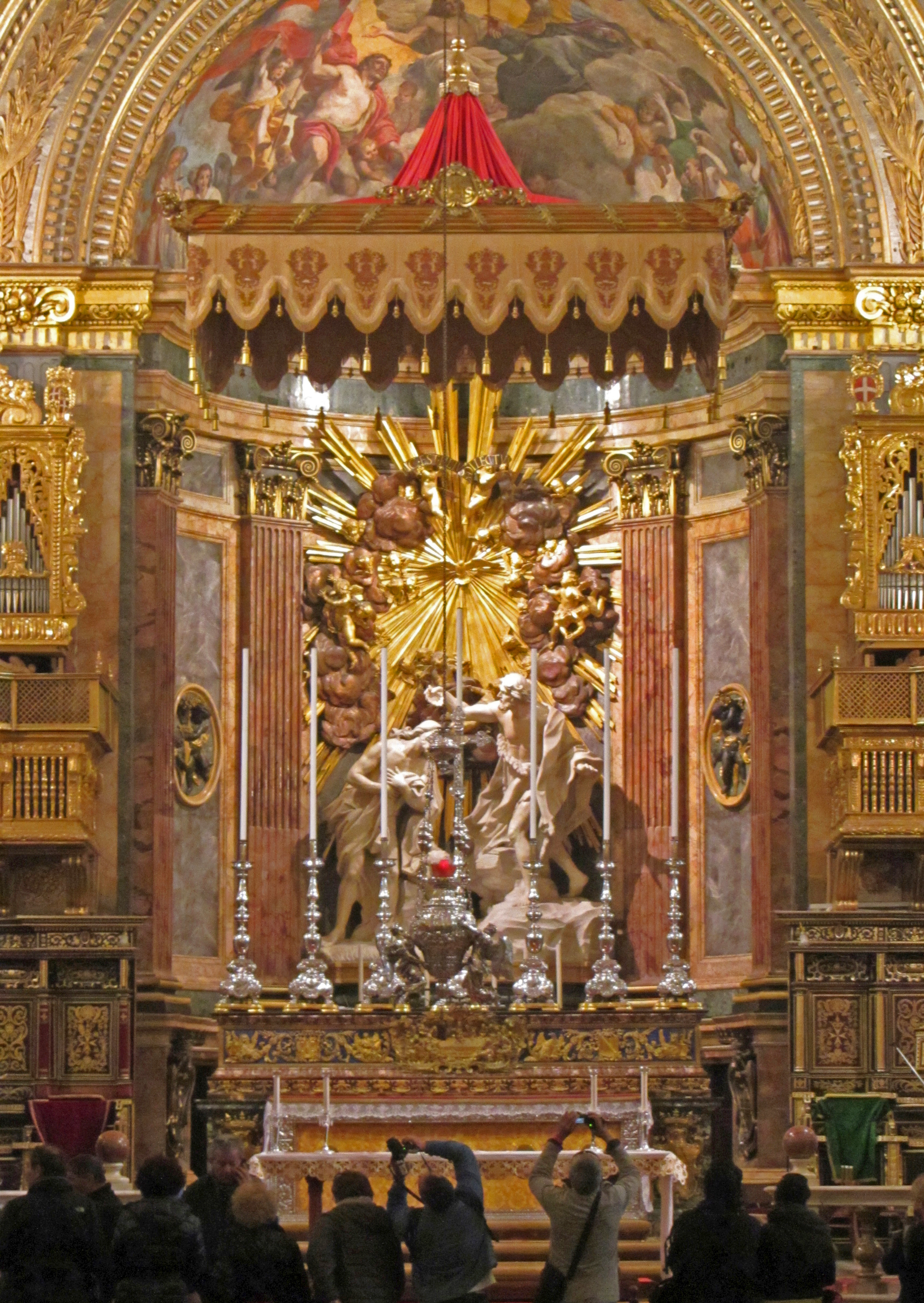 St. Johns Co-Cathedral, Valletta, Malta: Main Altar